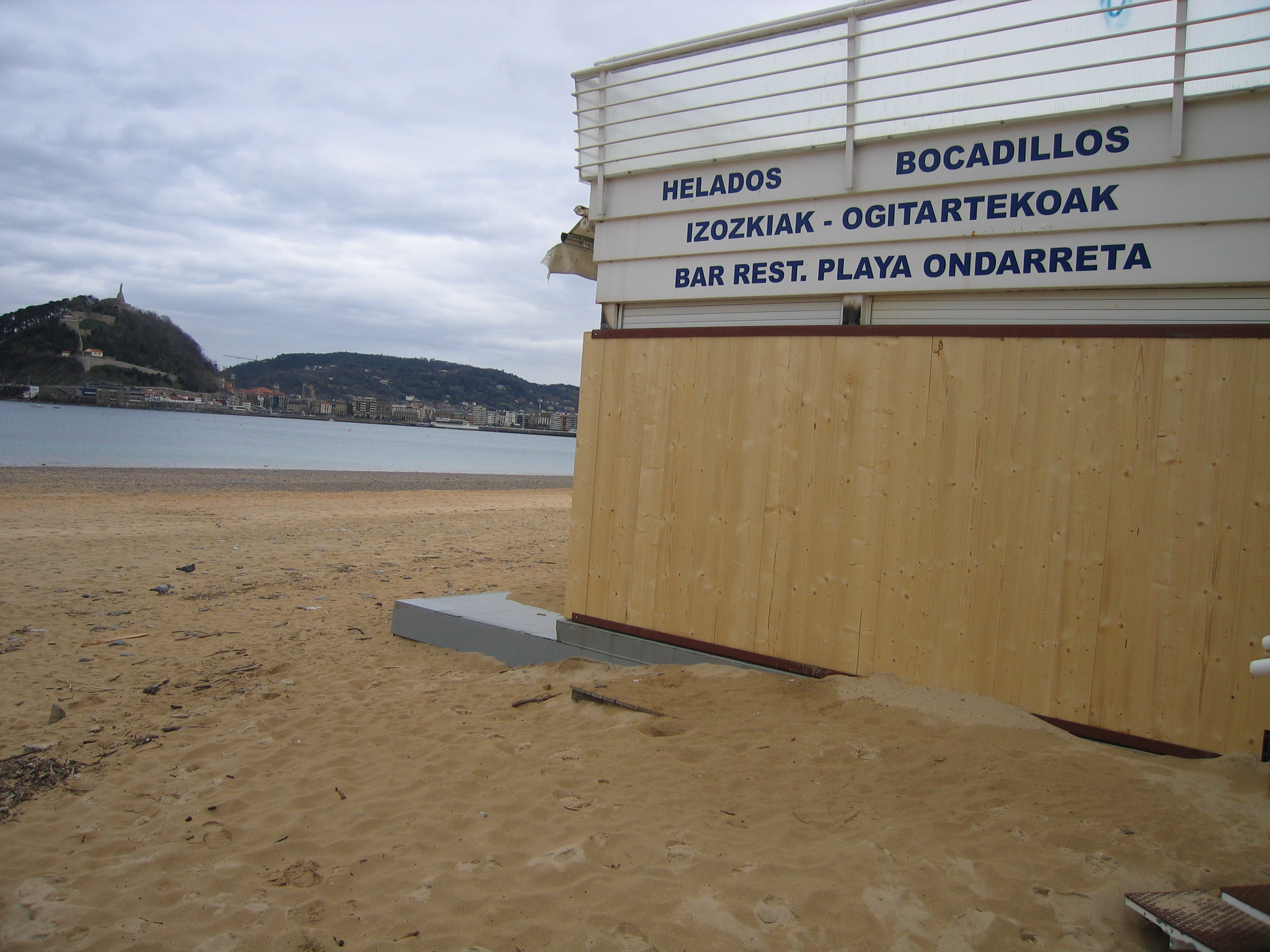 Xynthia storm alert in Donostia.